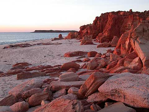 © Bruce Mitchell 2006